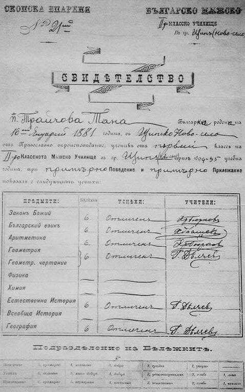 It was known that Goce Delchev used to be a teacher in Novo Selo, Shtip region. The image represents a diploma from the school where he used to teach.